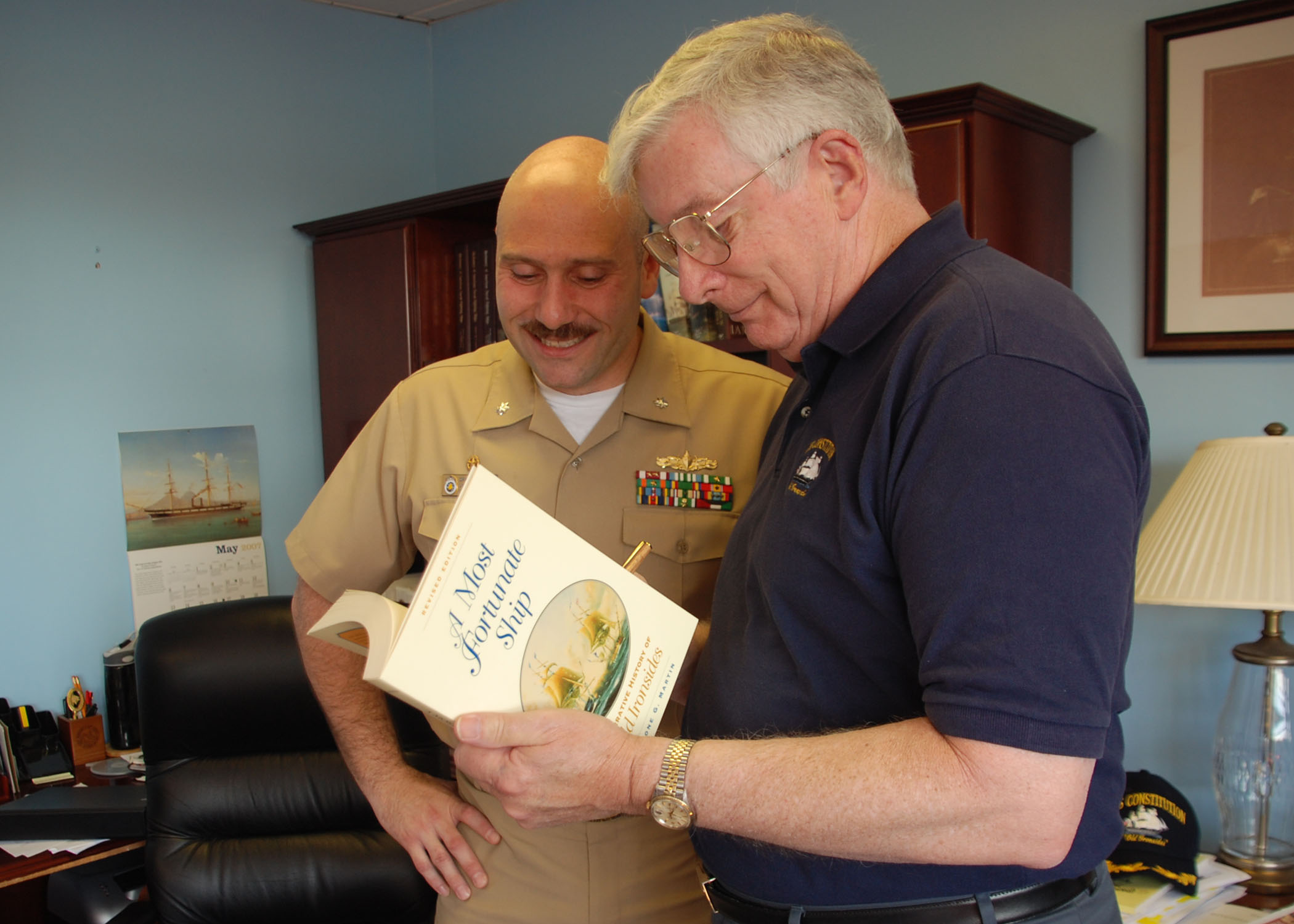 CHARLESTOWN, Mass. (May 22, 2007) - Cmdr. Ty Martin (ret.), the 58th commanding officer (1974-1978) of USS Constitution, signs a copy of his book “A Most Fortunate Ship” for the 70th and current commanding officer of the ship, Cmdr. William A. Bullard III. Martin, who paid an office call to Bullard on May 22, first published his definitive text on “Old Ironsides,” in 1997. USS Constitution is – at 209 years old – the oldest commissioned warship afloat in the world, manned by 64 active duty U.S. Navy Sailors, and visited by nearly half a million tourists annually. U.S. Navy photo by Mass Communication Specialist 1st Class Eric Brown (RELEASED)